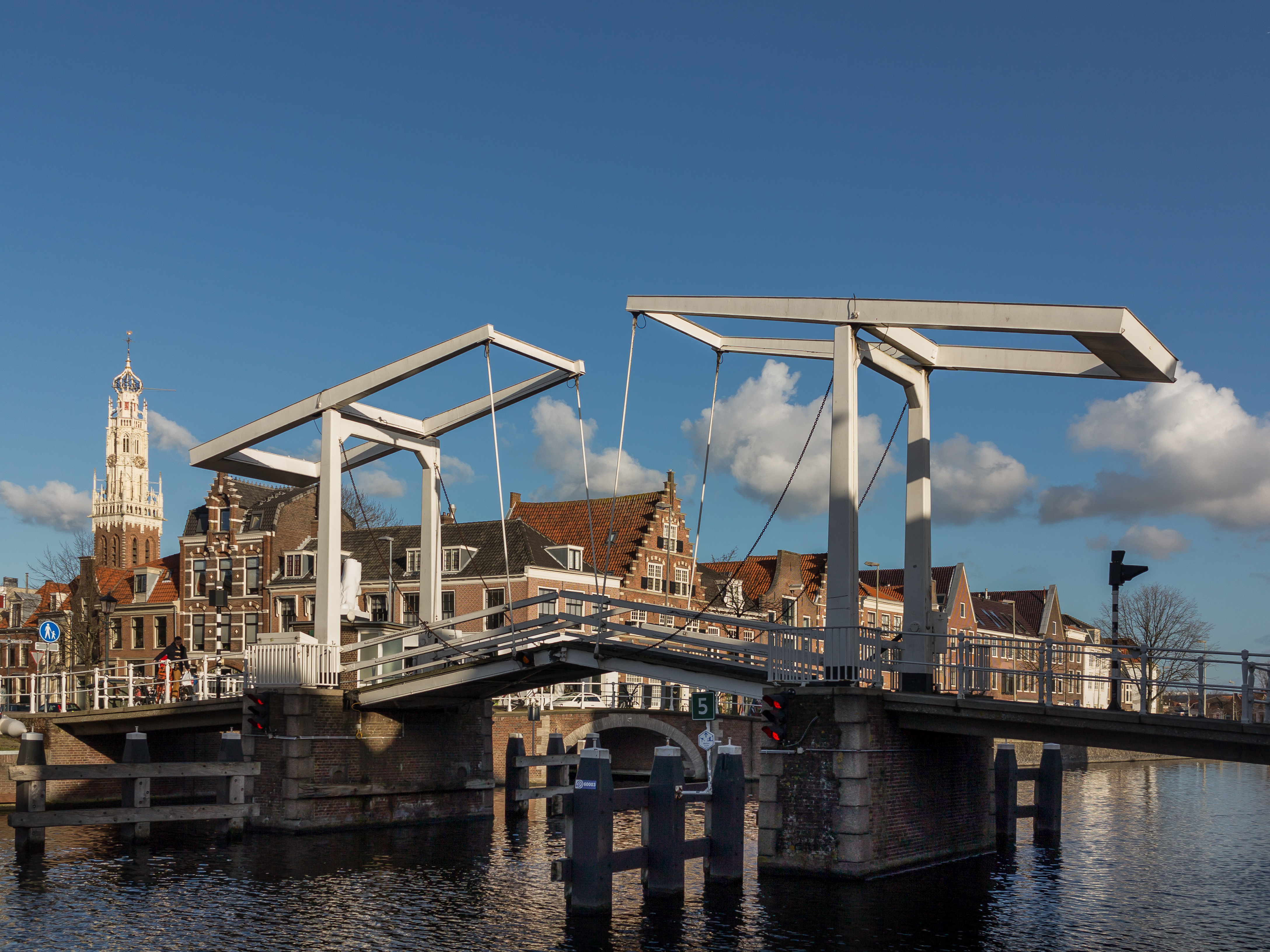 Haarlem, bridge (de Gravestenenbrug) and church tower (de Bakenesserkerk)